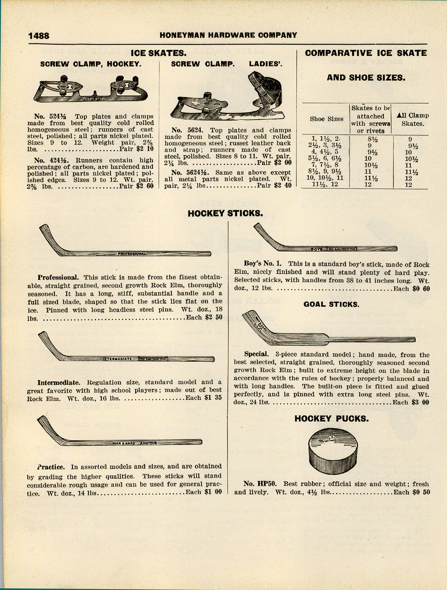 old page in a catalogue